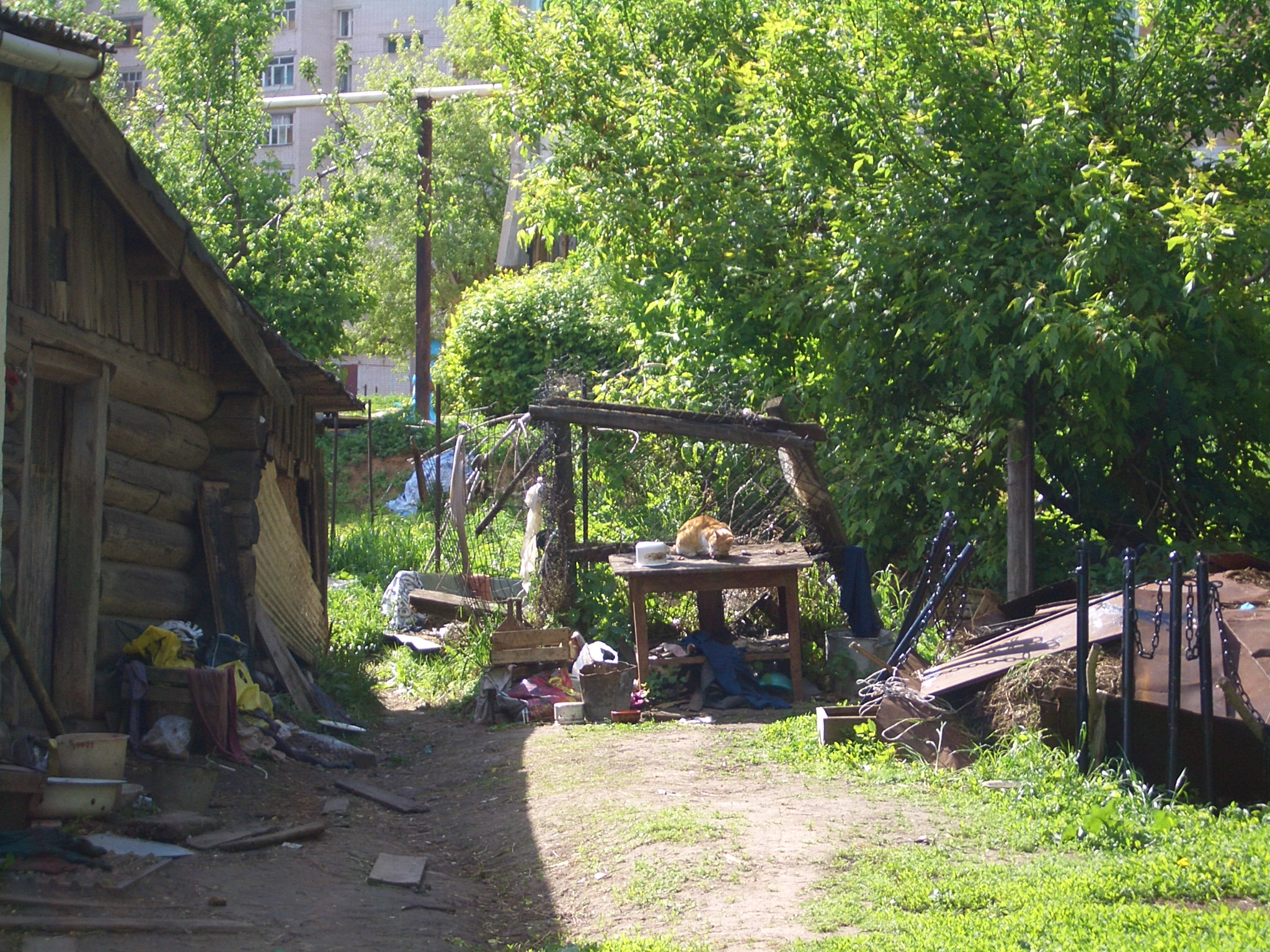 One of the last houses of the village of Lukeryino, next to one of the 9-story apartment buildings that have replaced most of the village since the mid-1970s. (Kstovo, Nizhny Novgorod Oblast)